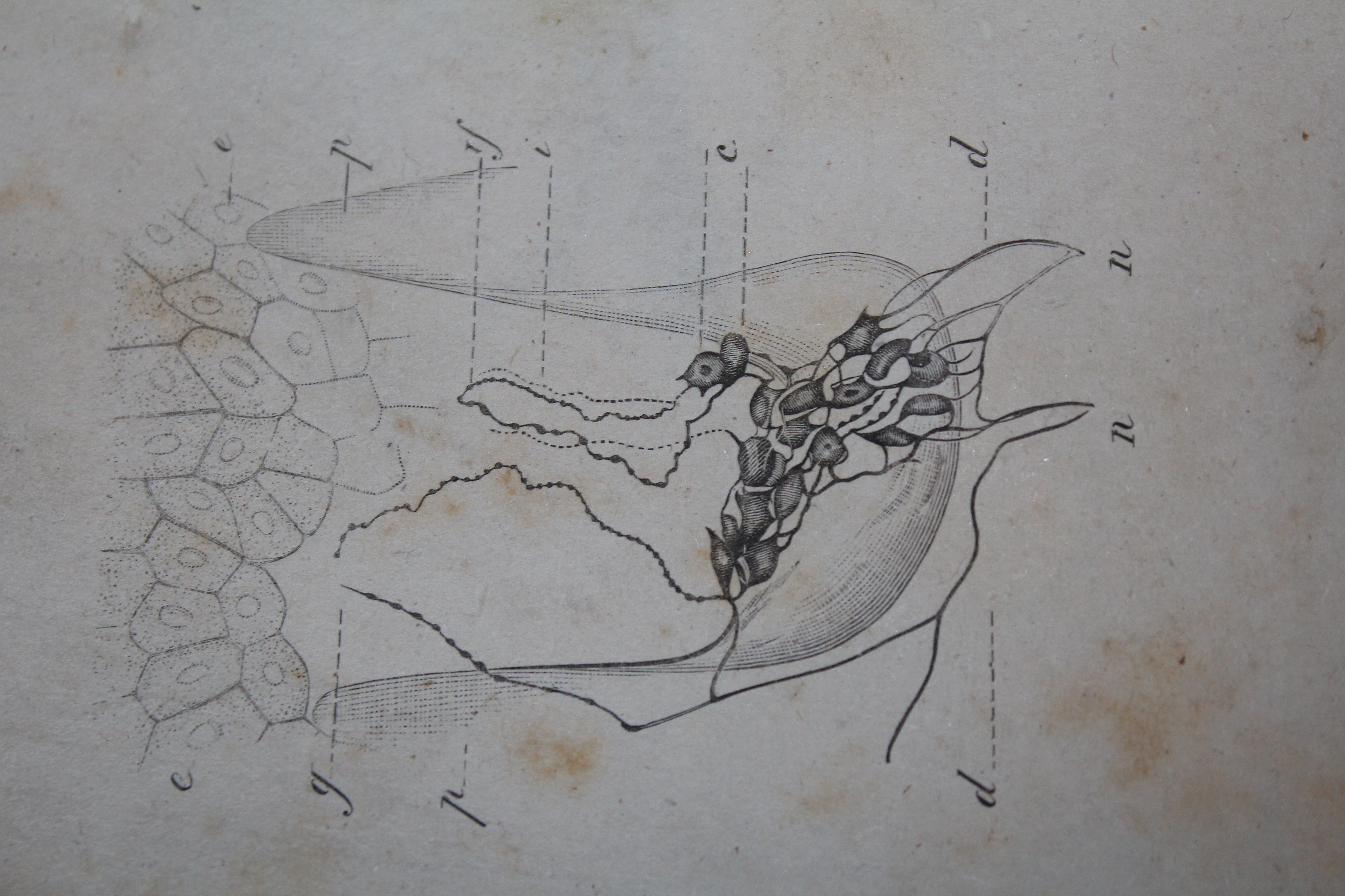 Charles robin work 1